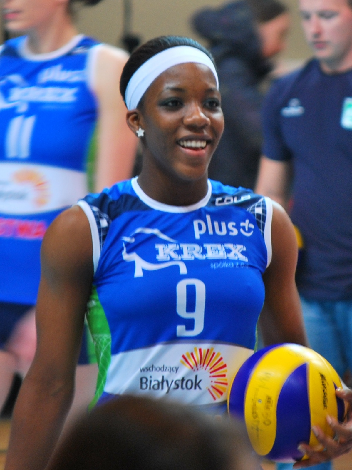 Channon Thompson, volleyball player from Trinidad & Tobago